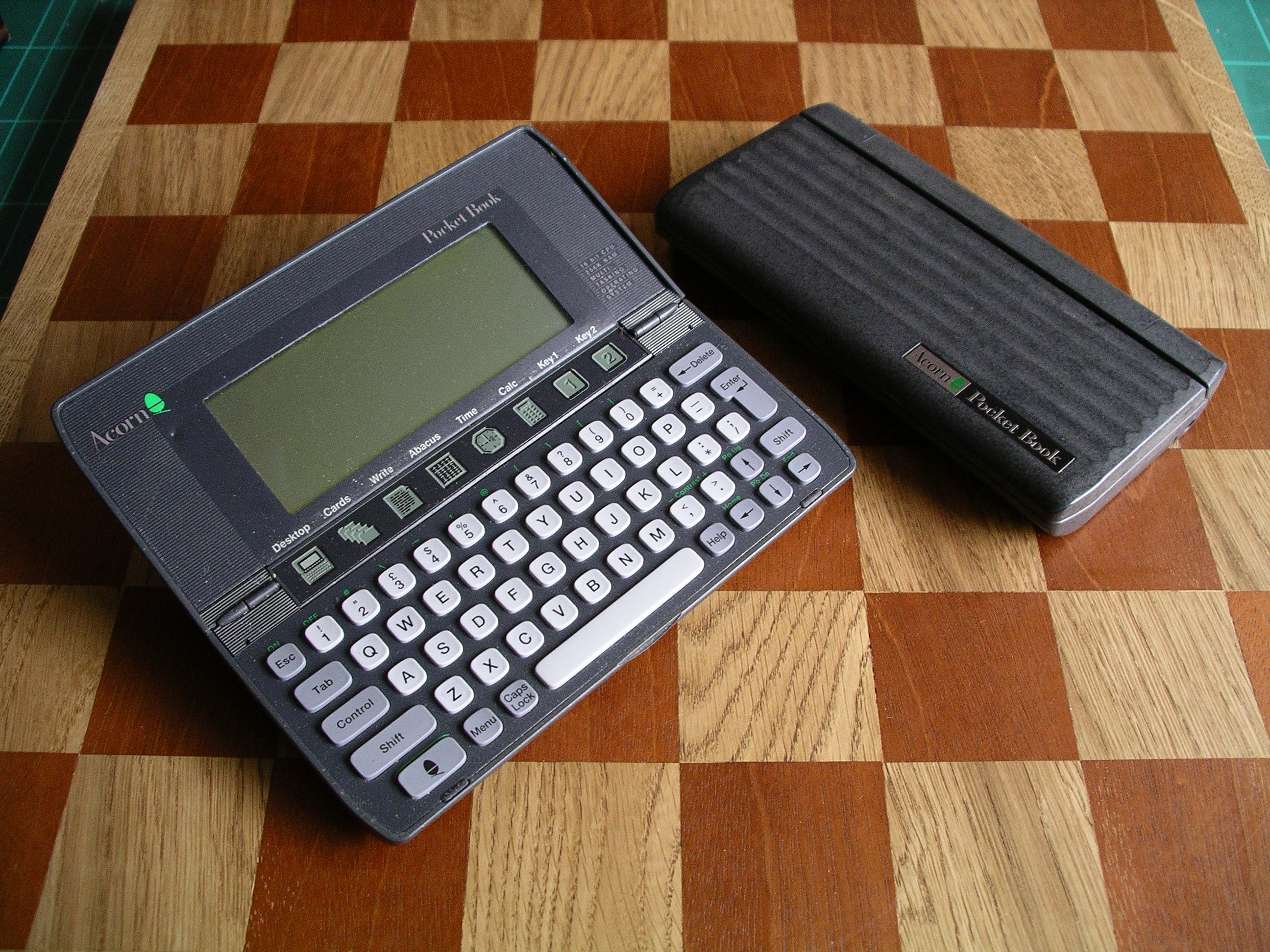 Photo taken by me of two acorn pocketbooks - one open and one closed. Photo taken on 17 Oct 2006 on a 5cm square background.